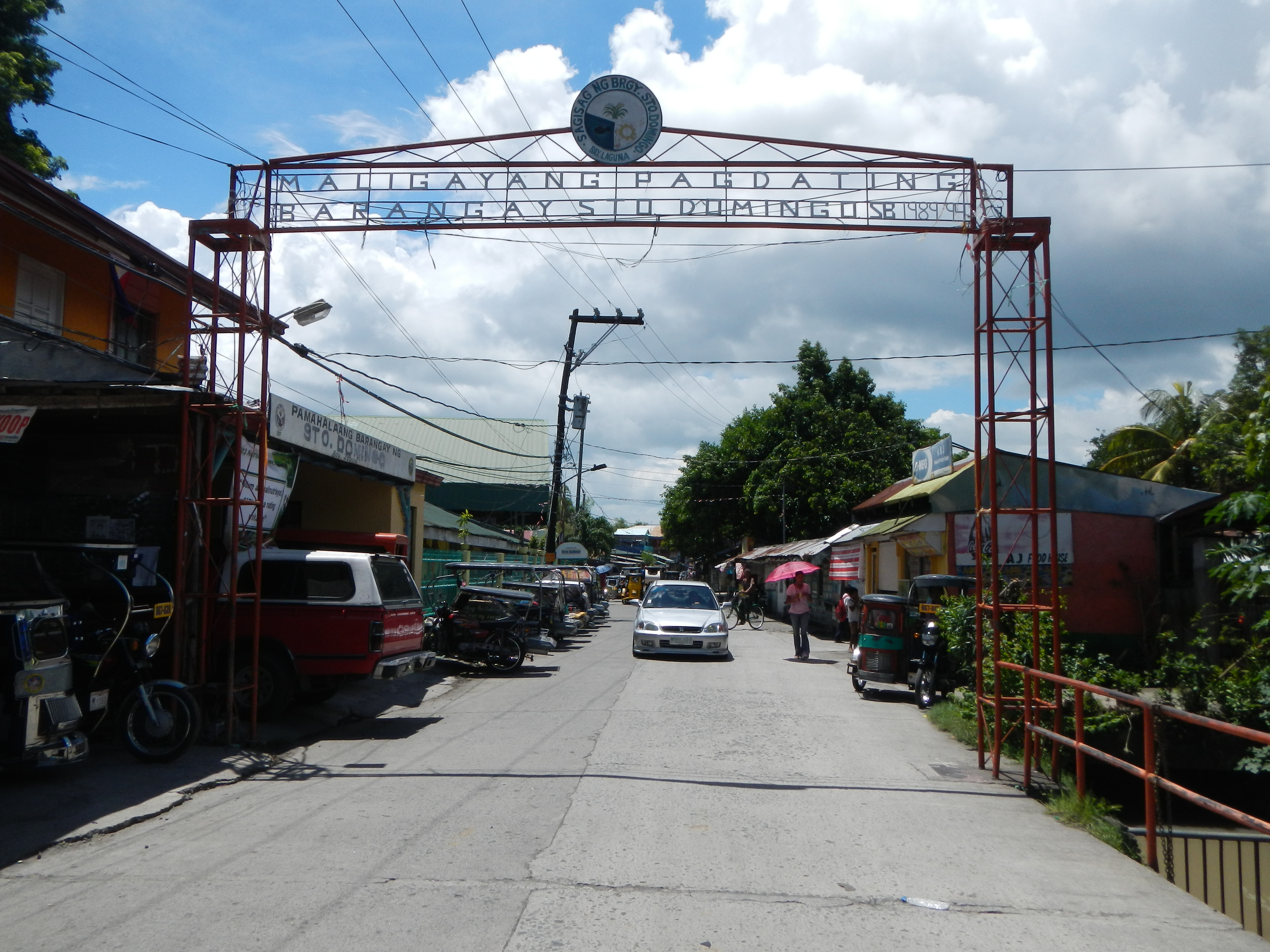 Bay, Laguna National Highway List of barangays in Laguna (province) Barangay San Agustin, Bay, Laguna 14.1815, 121.2842 Santo Domingo, Bay, Laguna 14.1770, 121.2677 Bay, Laguna along Bay–Calauan–San Pablo Roadfrom Calamba–Los Baños Expressway to Calauan - Victoria Road interconnecting a national road at Los Baños-Bay Road of the Calamba–Pagsanjan Road surrounded by Bay River Philippine highway network.)